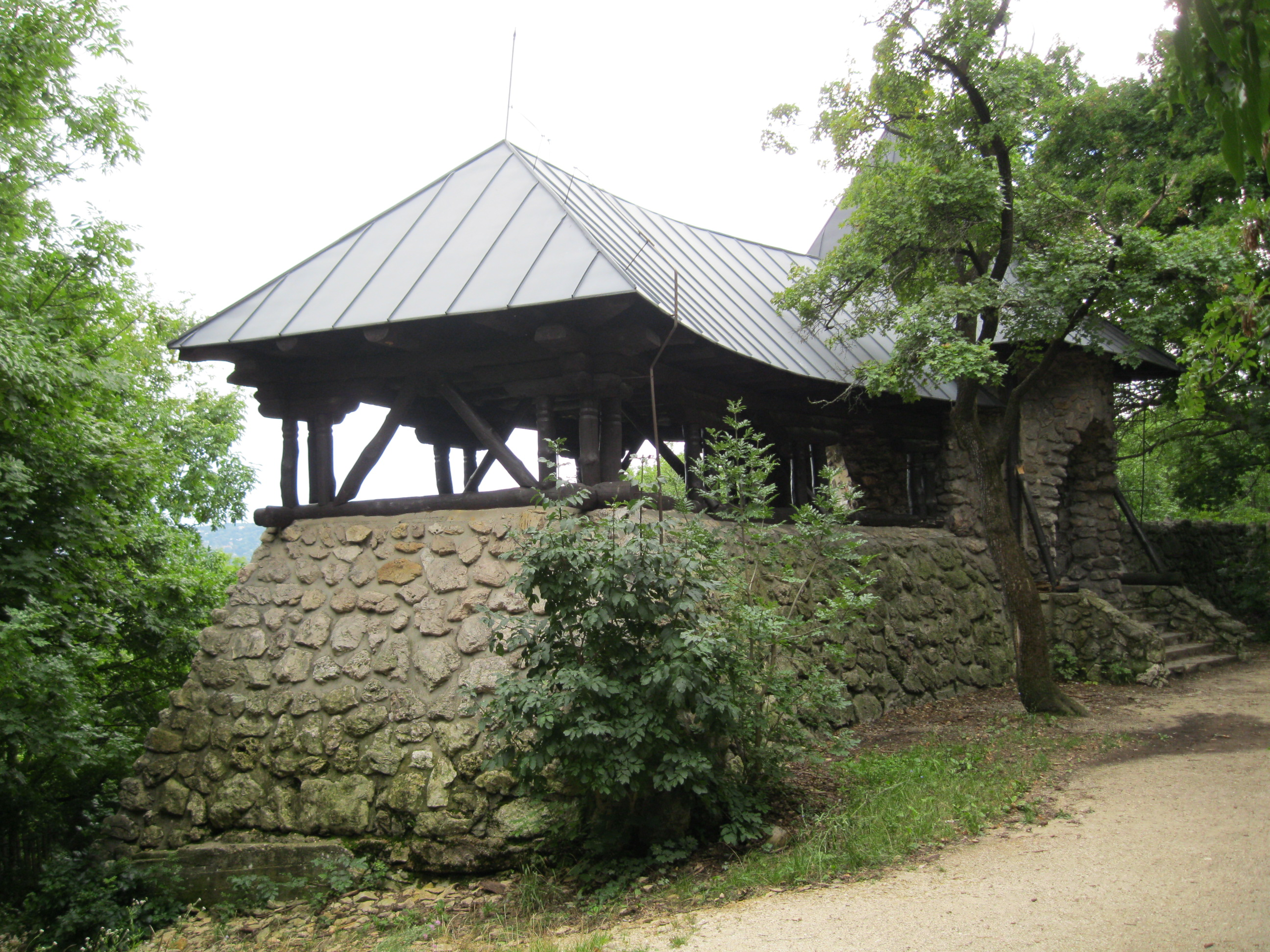 Árpád viewpoint in Budapest District II.